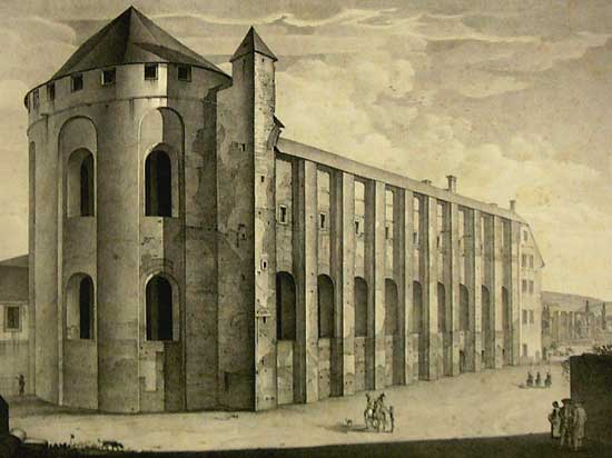 View of the Basilica of Constantine in Trier